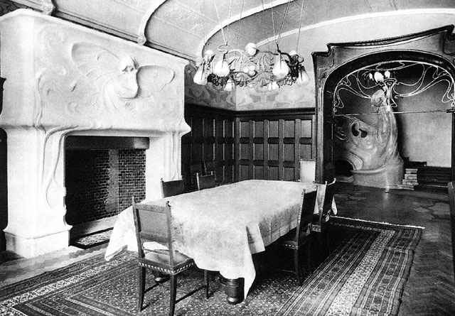 Moscow, Ryabushinsky House interiors (1900s).